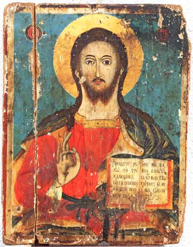 Christ Icon in Saint Athanasius Church in Bogomila